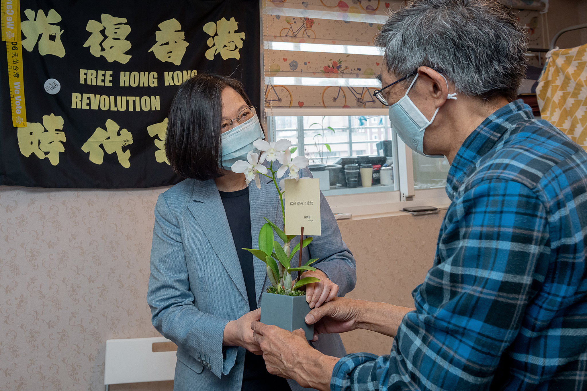 Official Photo by Makoto Lin / Office of the President